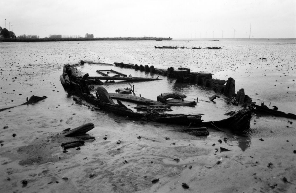 Wrecks Spakenburg, The Netherlands